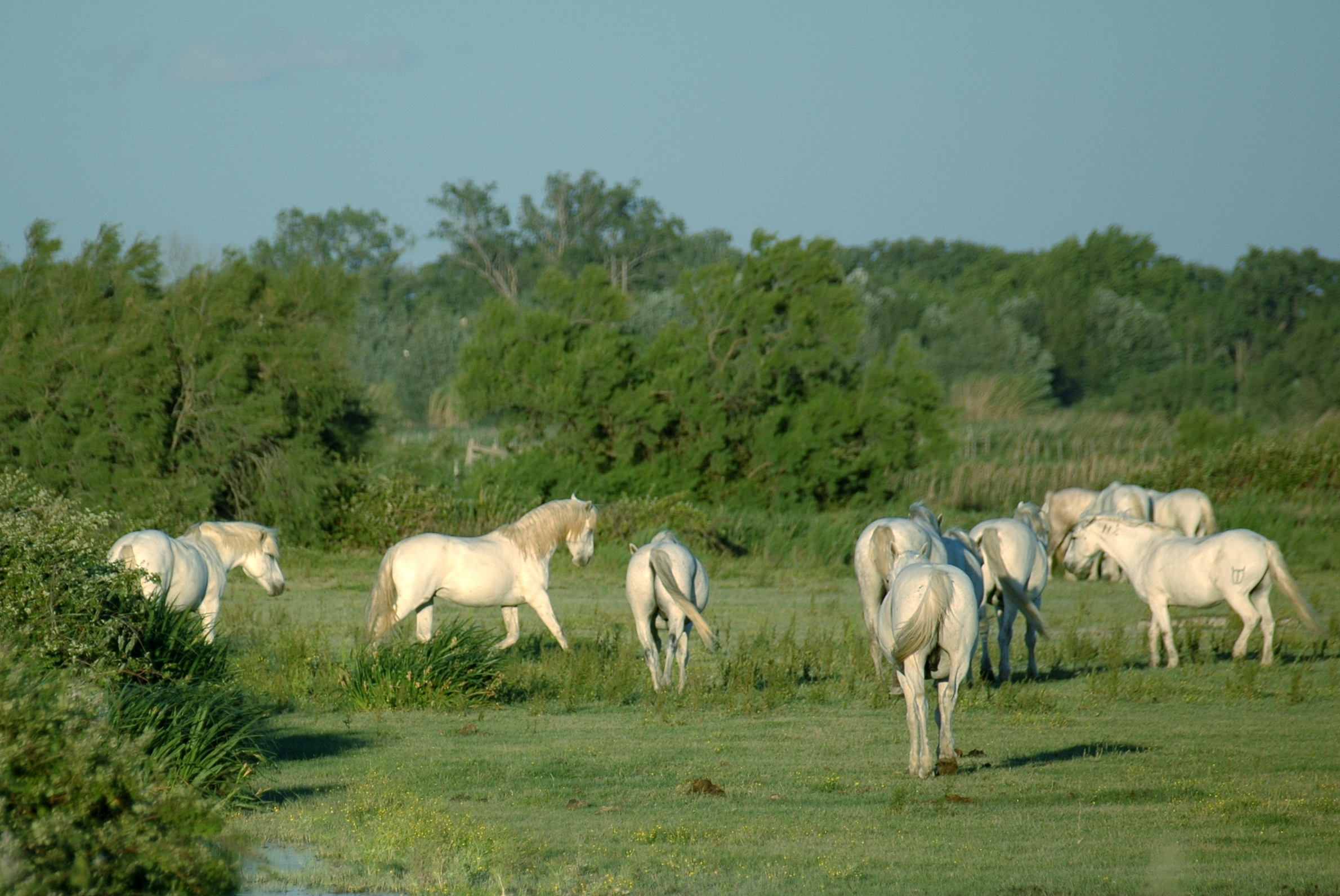 a group of horses running over a pasture in the Camargue